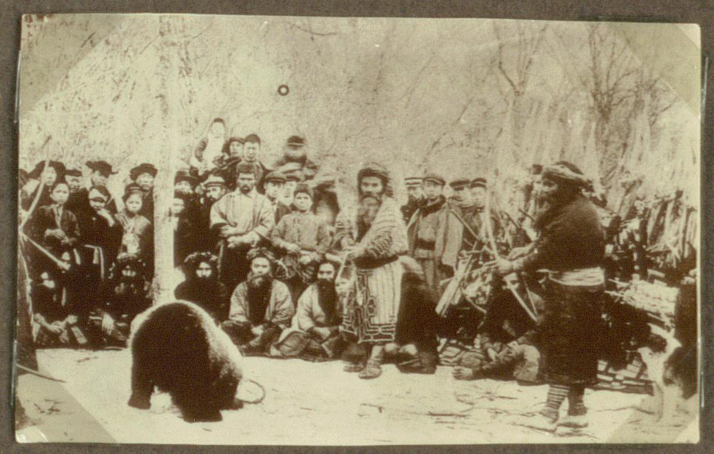 Japan – Ainu. Originates from Mr Ludvig Munsterhjelm’s expedition to Sachalin (Sakhalin) 1914. No. es_b_00524a